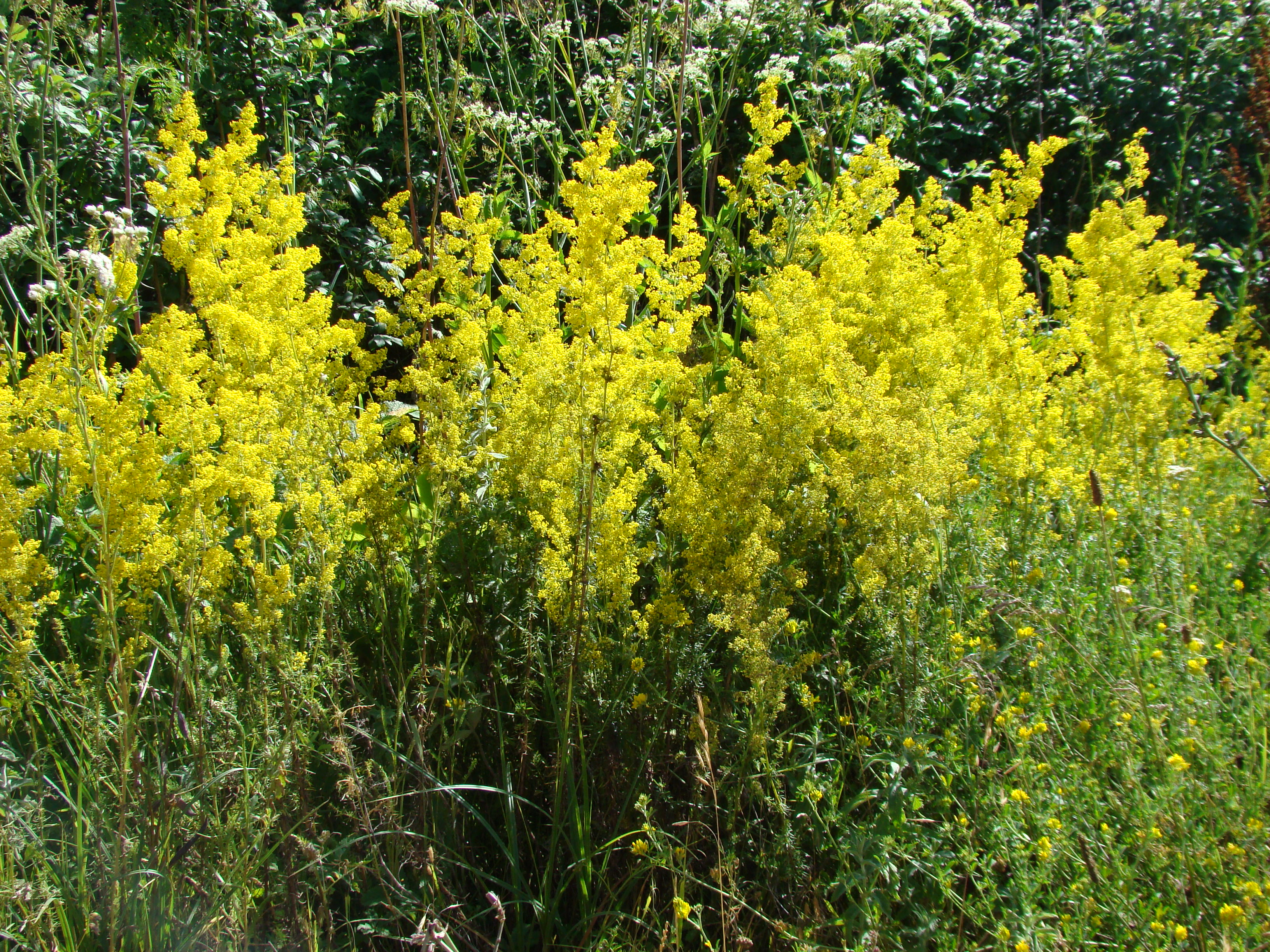 Yellow bedstraw (Sânziana galbenă) growing wild in the Transylvanian Plateau